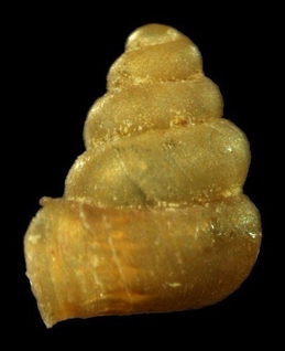 Photo of a right lateral view of a shell of Bensonella plicidens.